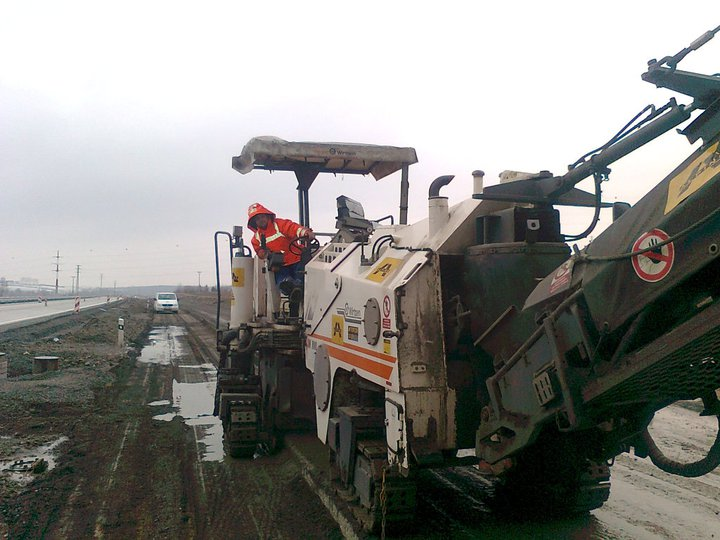 Complete Milling Road E462 - Příbor, Czech Republic with Wirtgen W1000f